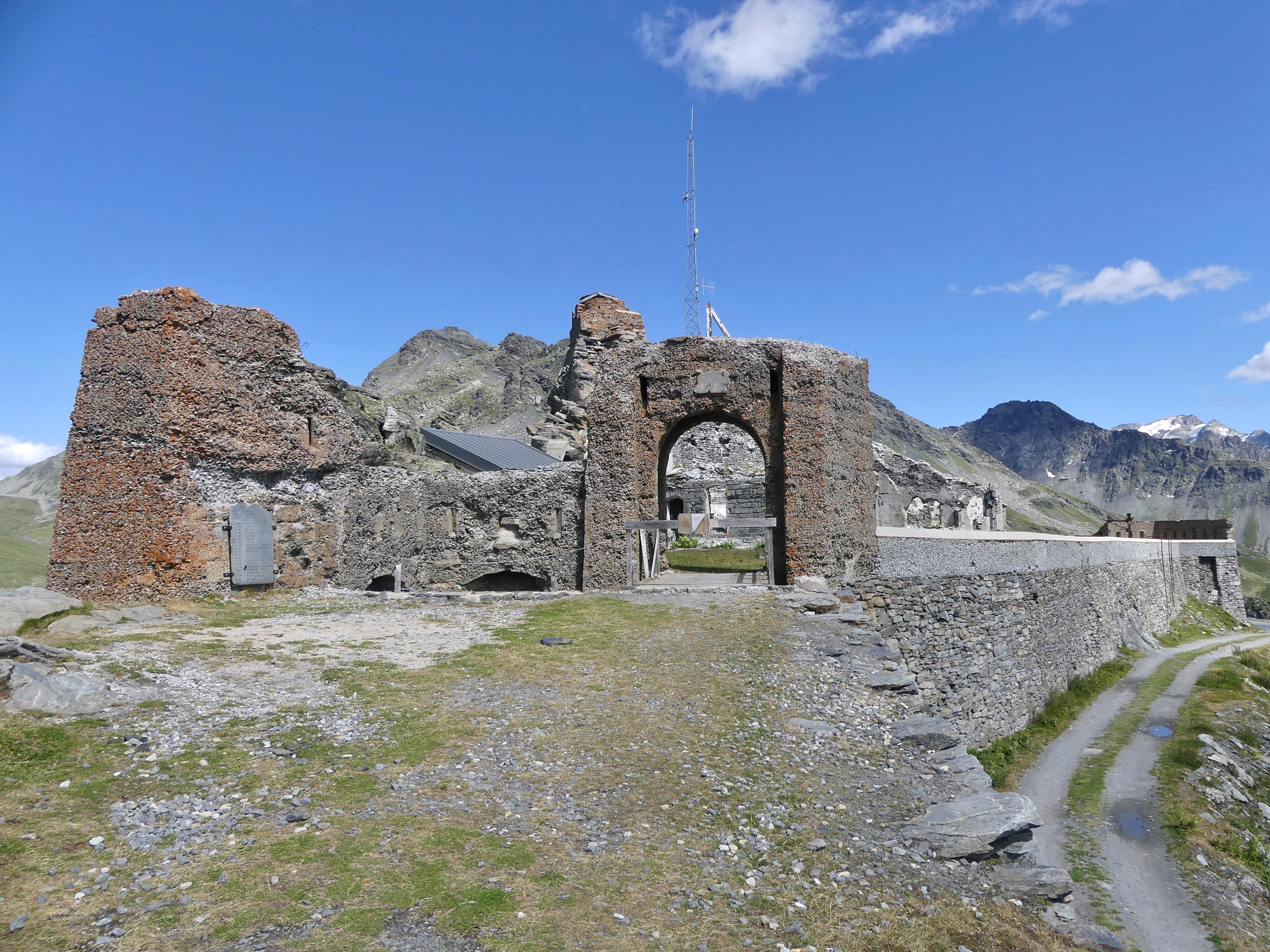 Sight, in summer, of the Redoute Ruinée fort on the heights of La Rosière resort, at 2,383 meters high, in Savoie, France.